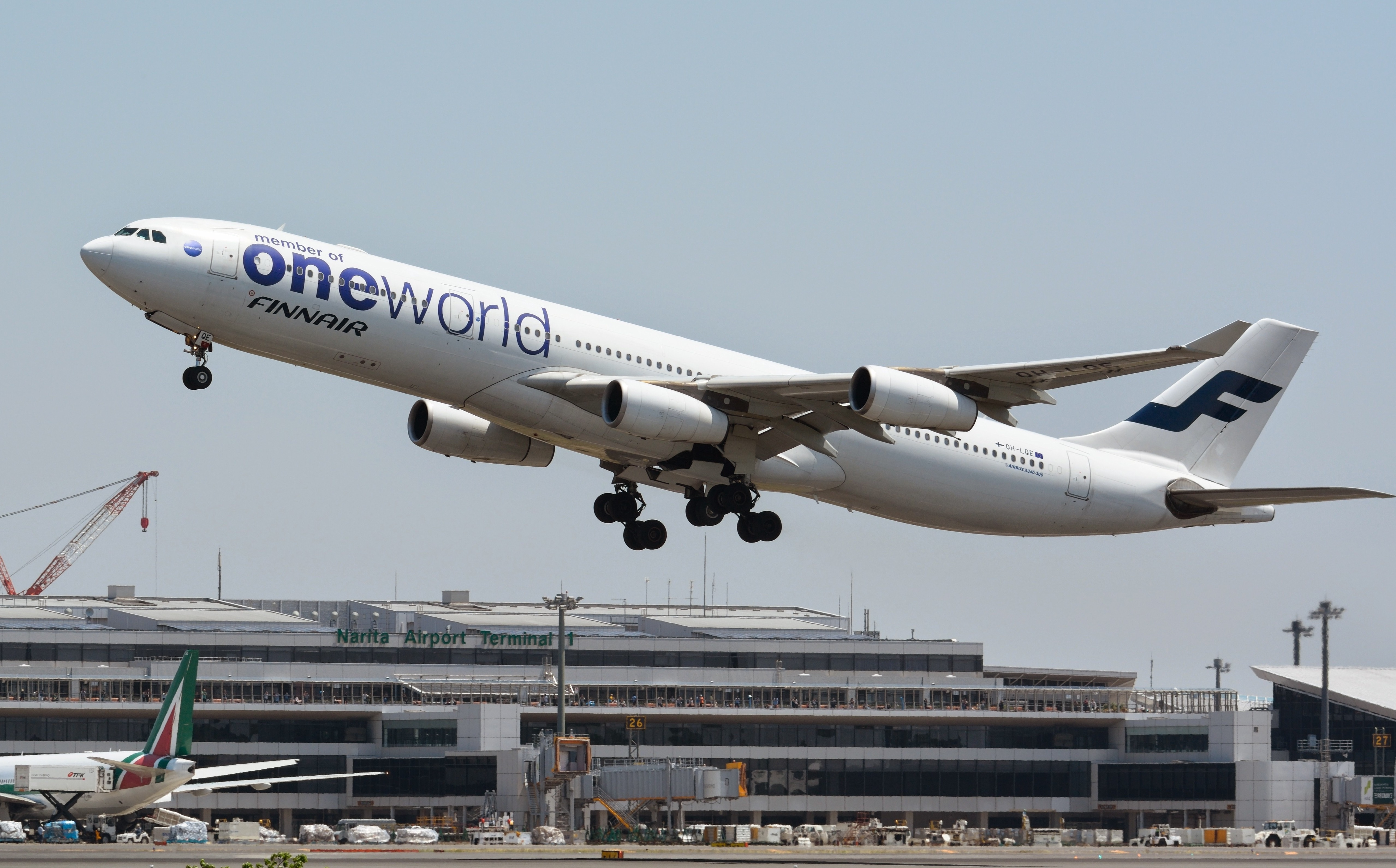 Finnair, Airbus A340-300 OH-LQE 'One World' NRT